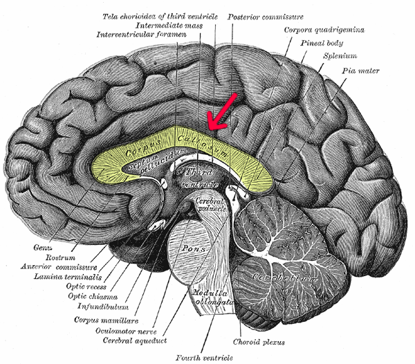 corpus callosum. Image is modified from a scan of a plate in Gray's Anatomy